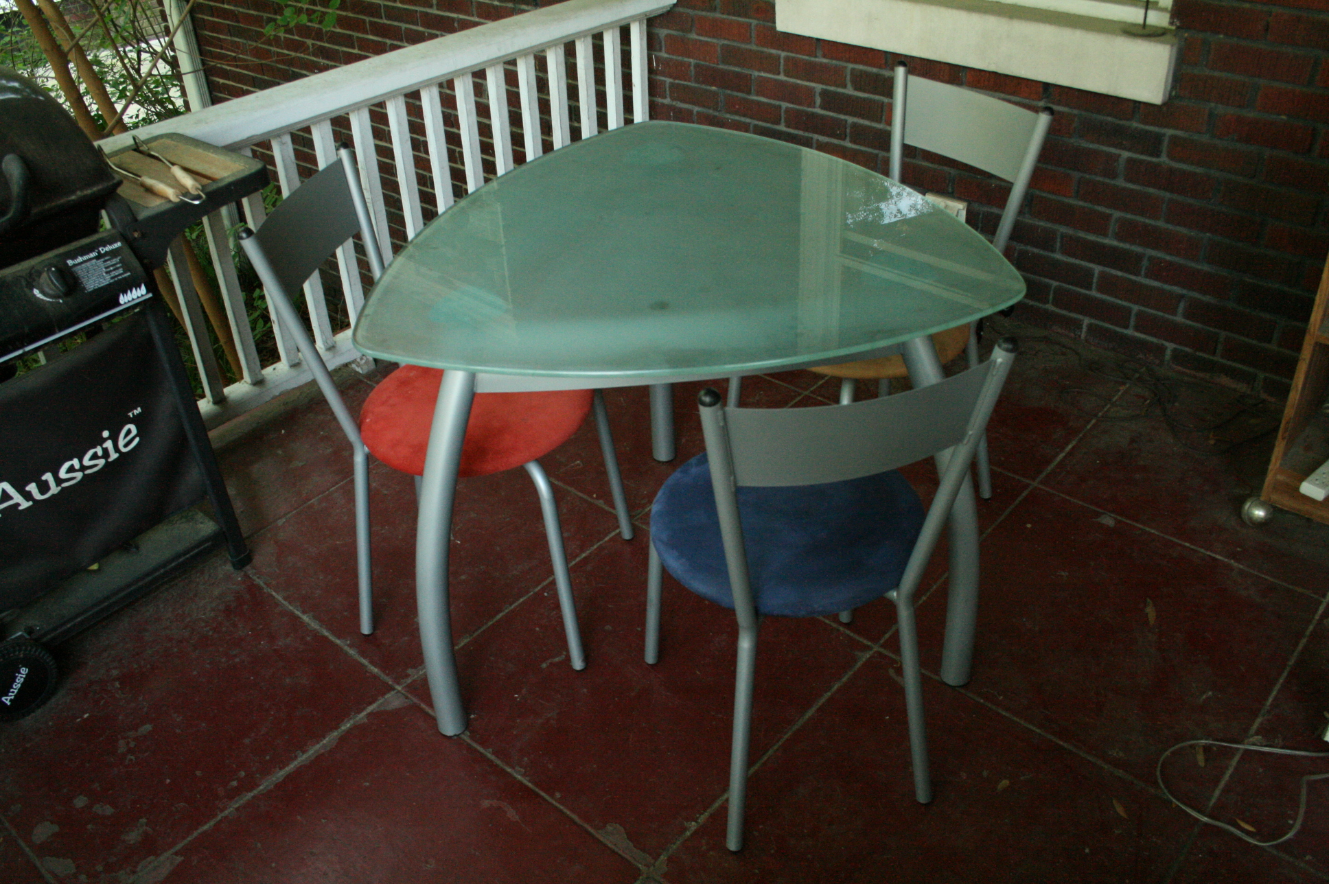 A glass table with multicoloured chairs on a patio.